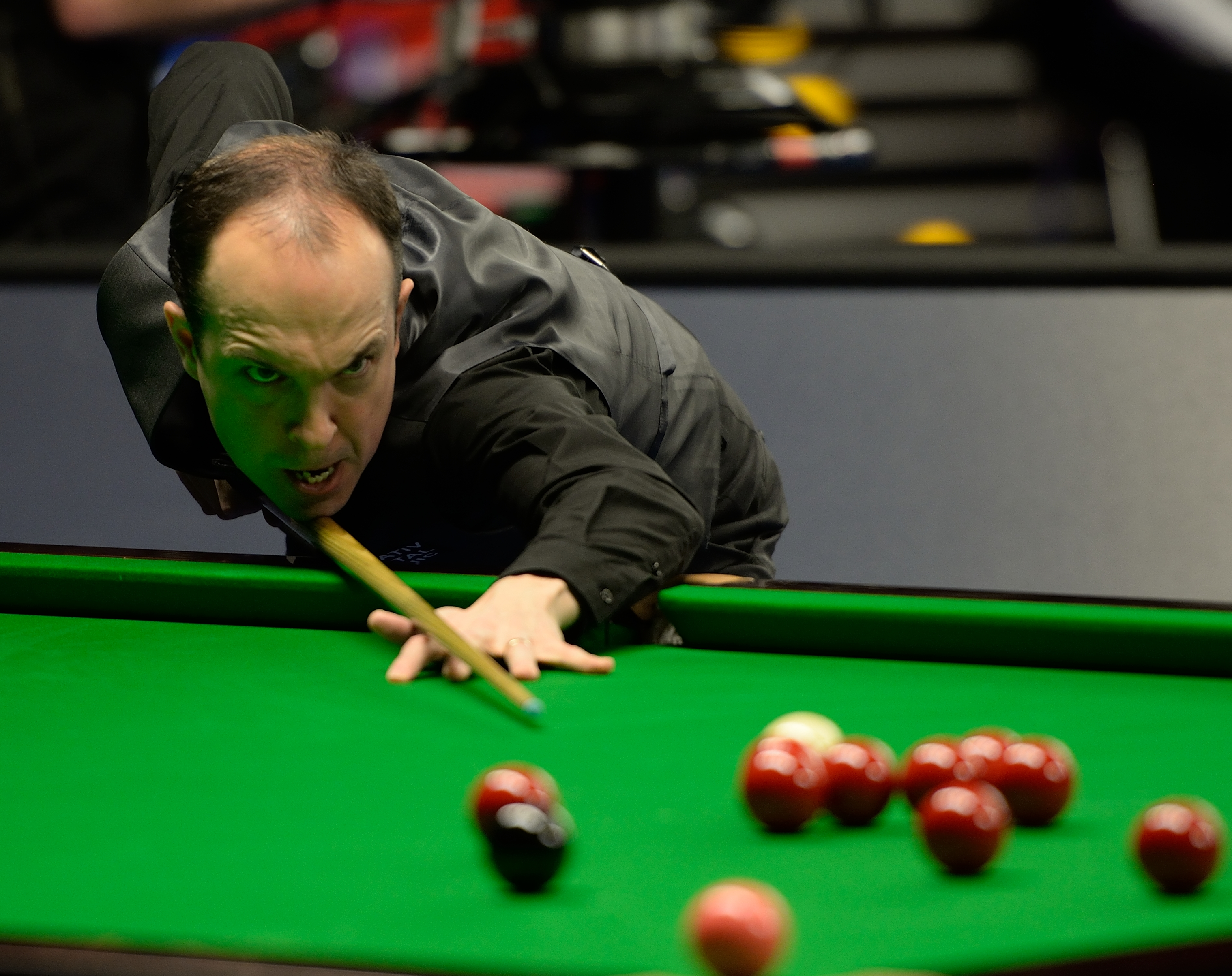 Picture taken in Berlin during the Snooker German Masters in 2015. Fergal O’Brien.